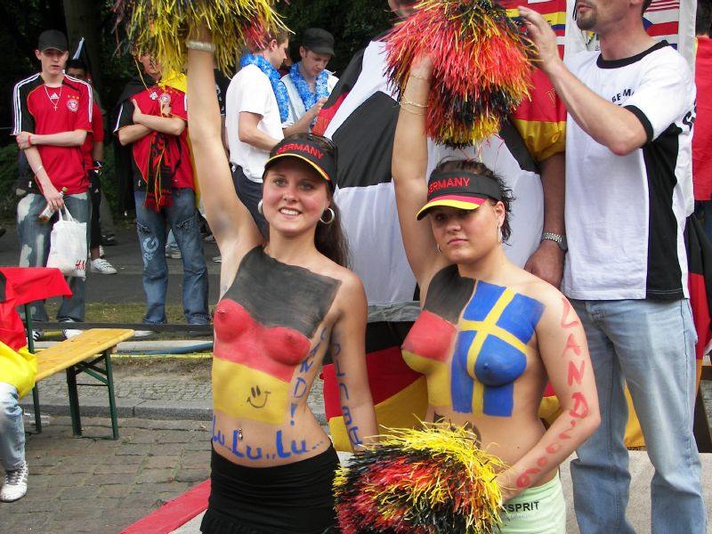 Two women with body paintings at the fan fest in Berlin during the Football World Cup 2006WM 2006